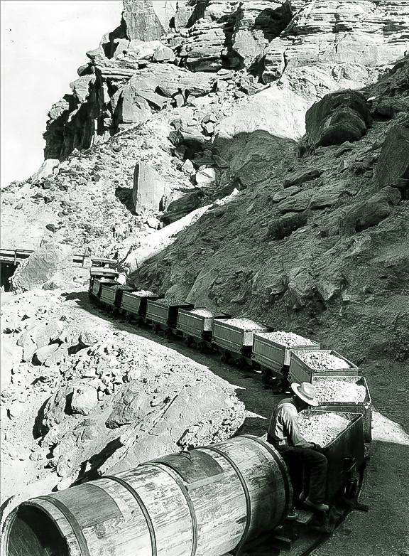 Death Valley Railroad: Ore train arriving at Ryan from the mines – 1916.